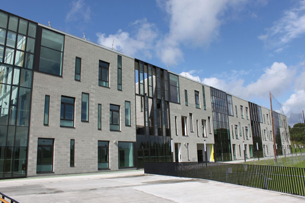 AIT Engineering and Informatics Building